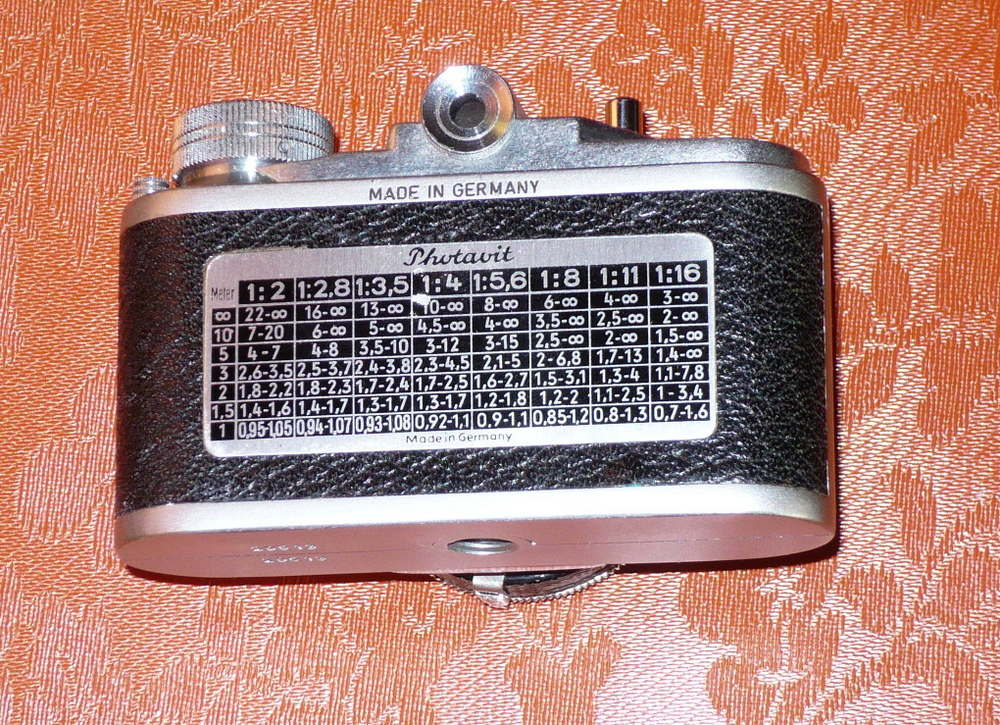 dof table at back of Bolta Photavit camera